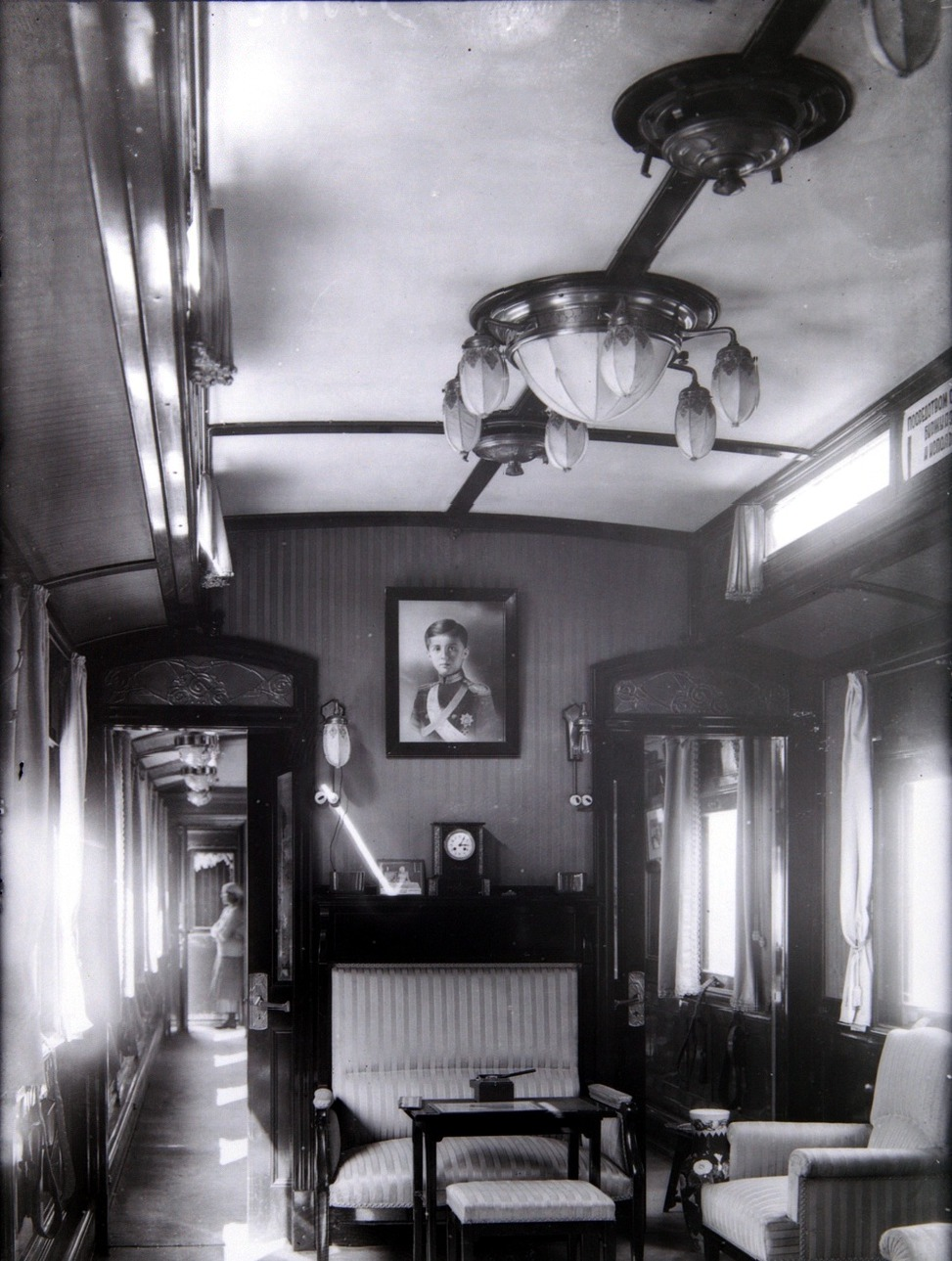 Salon of the Imperial train, where the Russian Emperor Nicholas II announced his abdication.